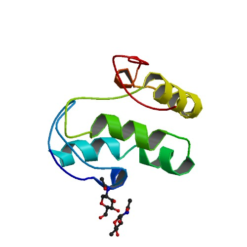 Protein crystal structure of the Wnt-binding cysteine-rich domain of Frizzled 8.